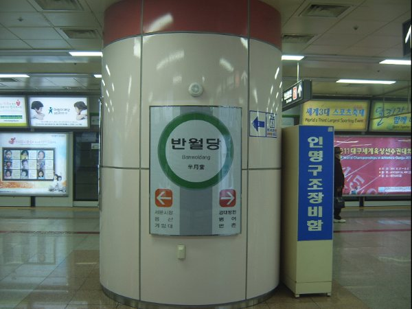 Daegu subway line 2 Banwoldang station